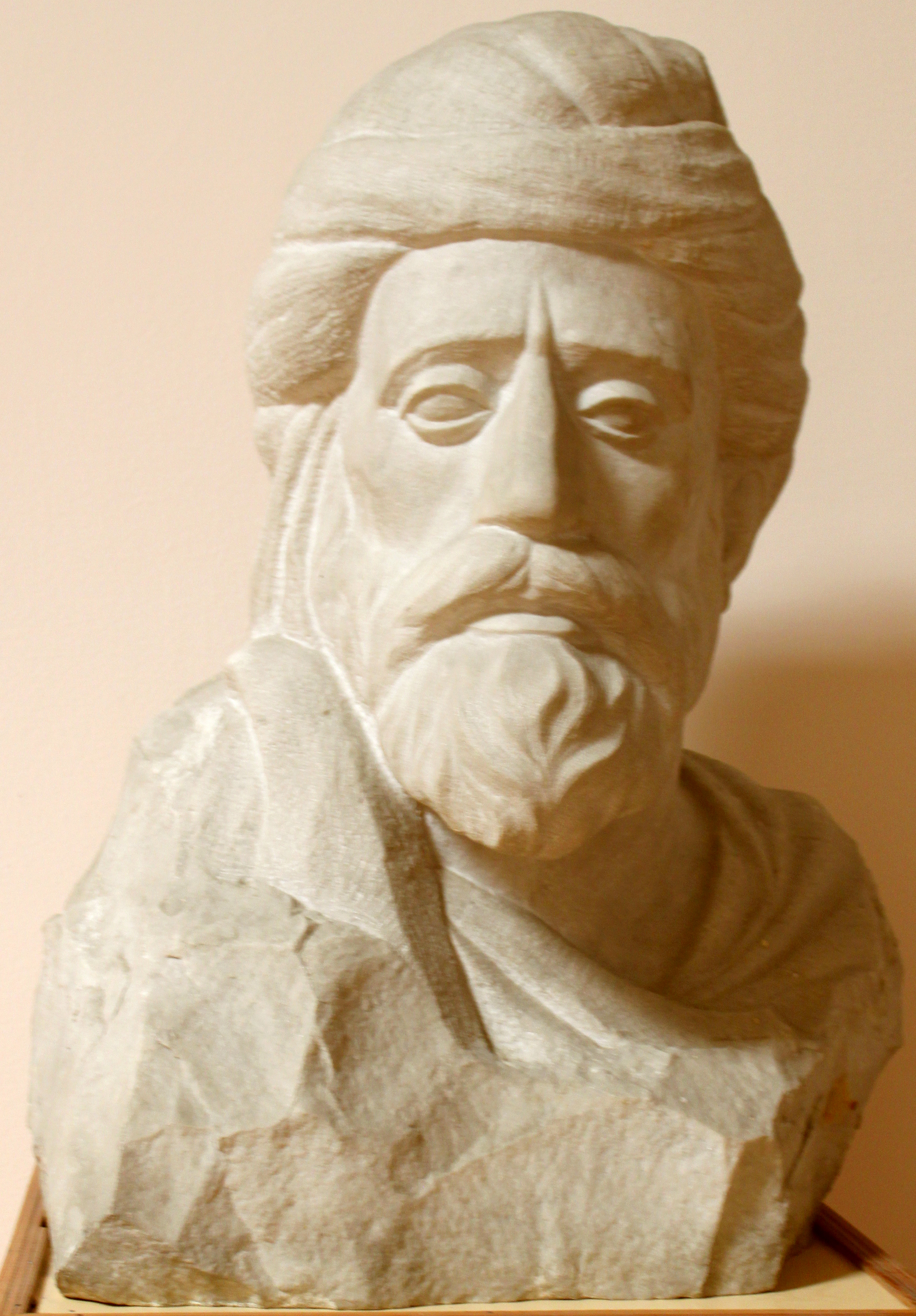 İsmailiyye palace Bust of Bahmanyar Al-Azerbaijani